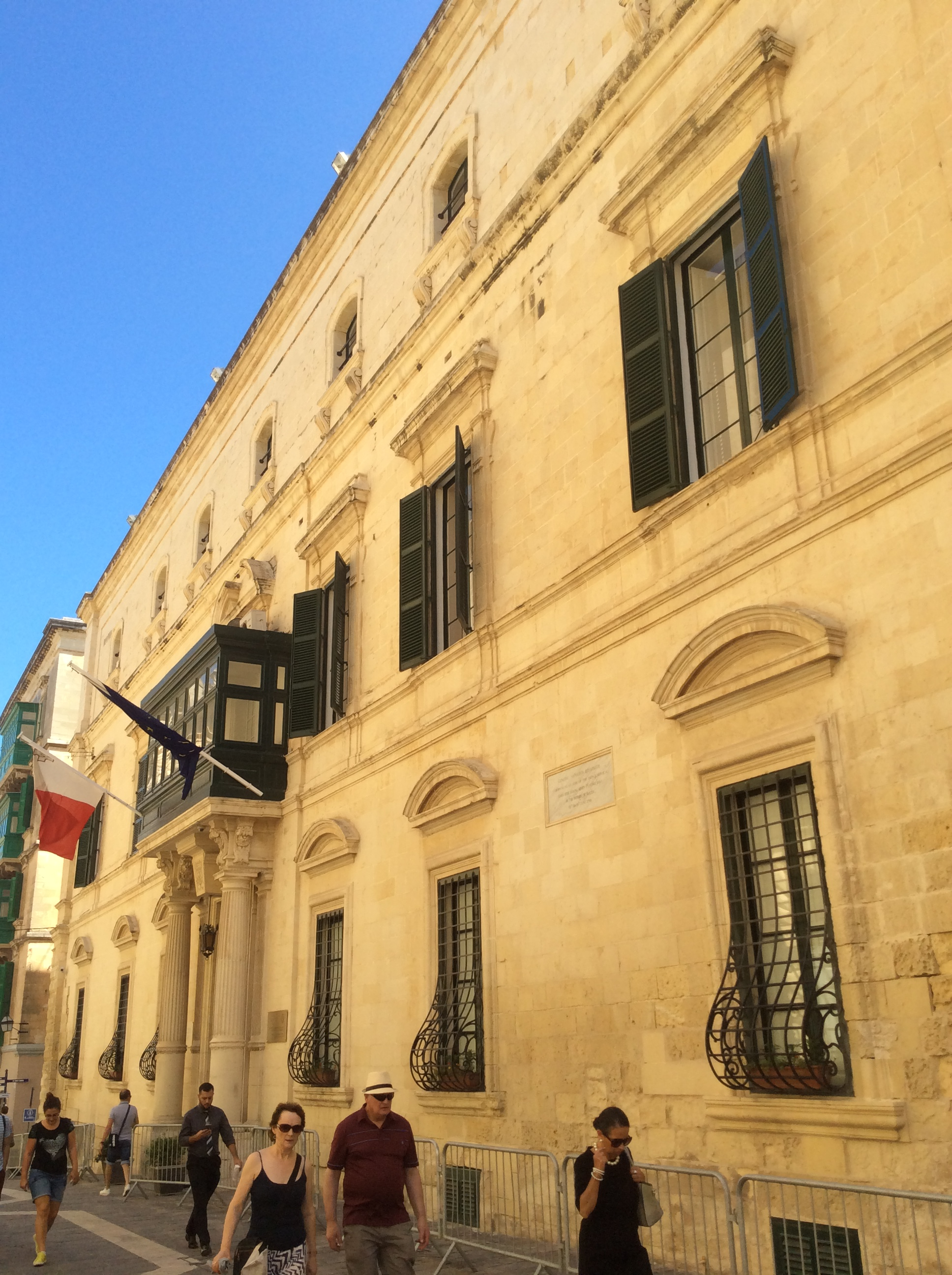 Palazzo Parisio This media is about Maltese cultural property with inventory number 01131.